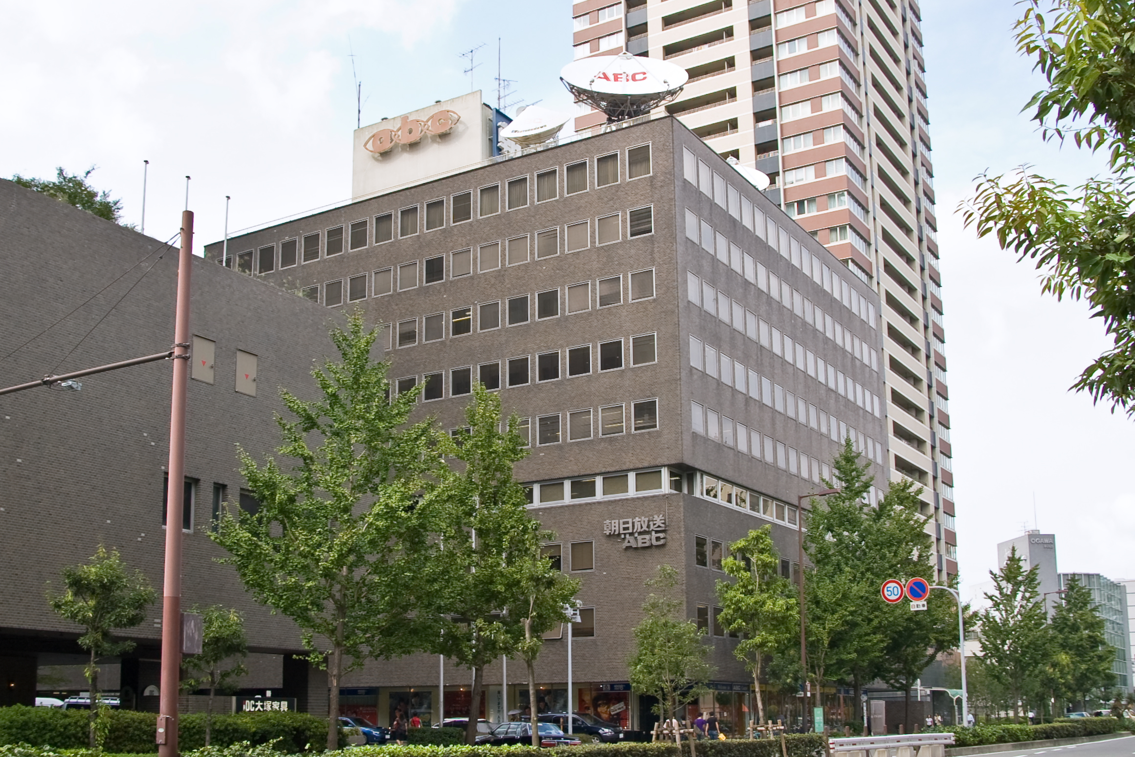 Photograph of the former headquarters of Asahi Broadcasting Corporation in Kita-ku, Osaka, Osaka Prefecture, Japan.